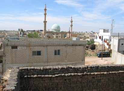 ddddddddddddddddddfff